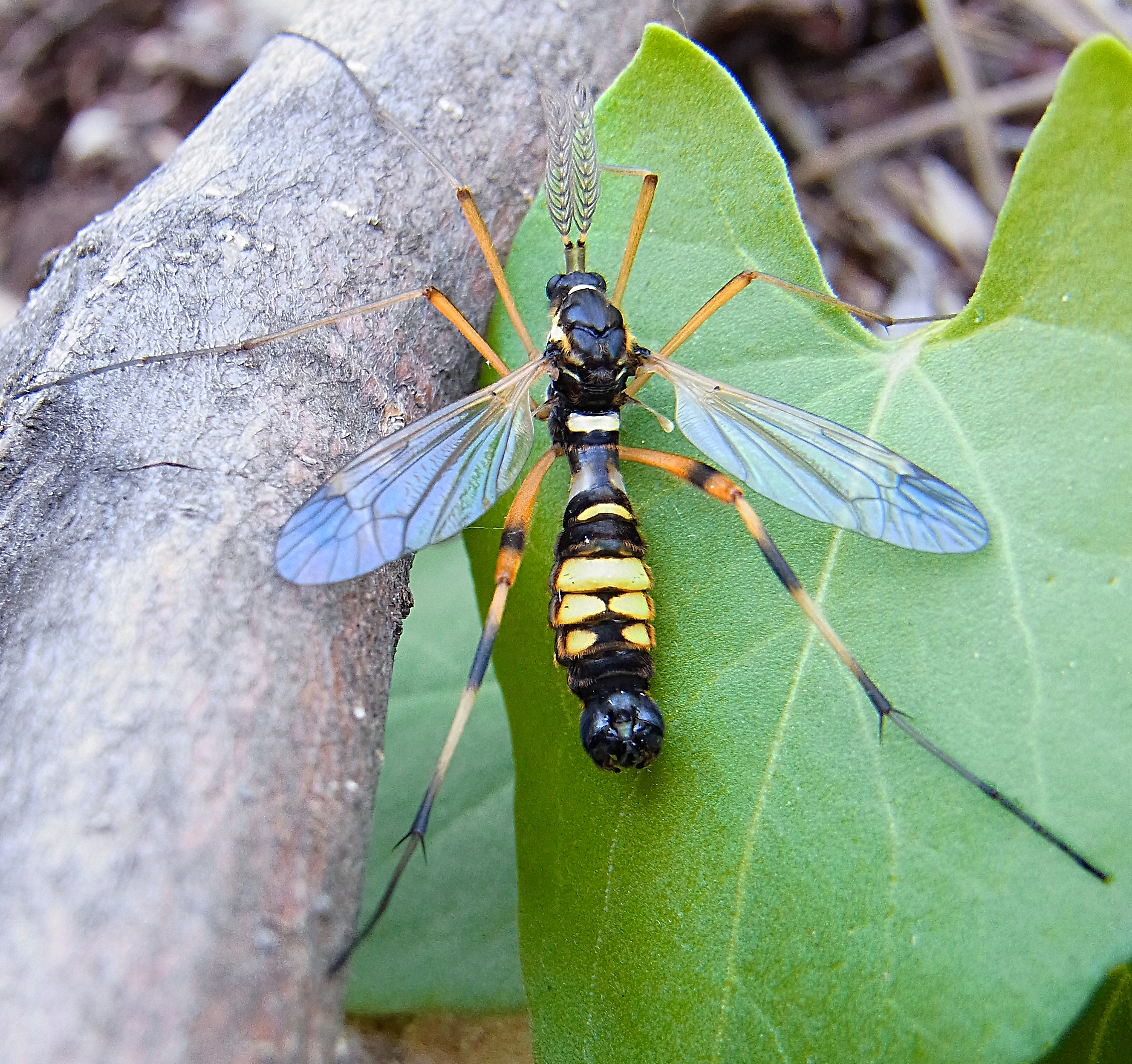 Ctenophora festiva from Southern Hungary near village Ásotthalom